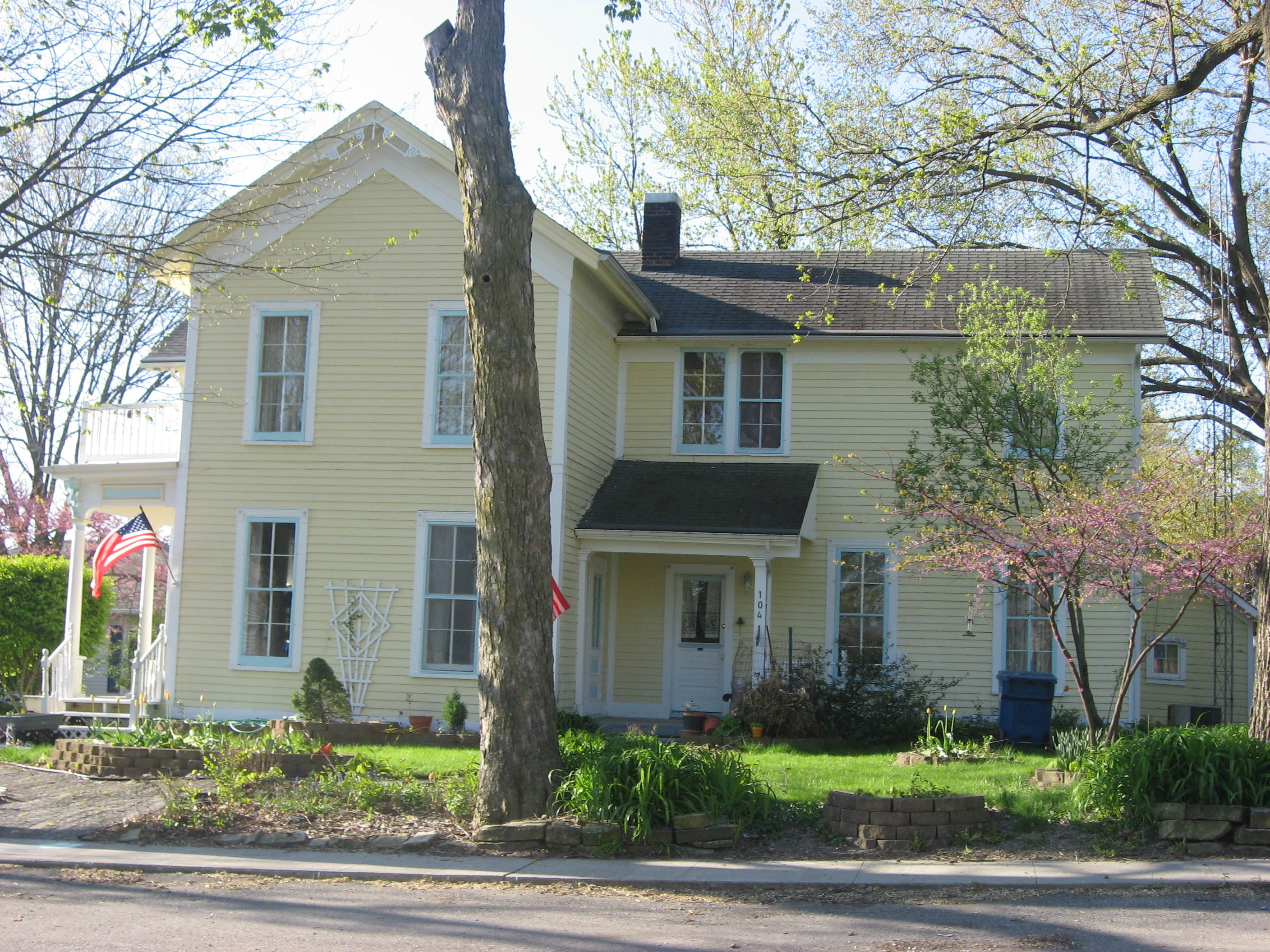 Front of the Eli Sigler House, located at 104 W. Church Street near its intersection with S. Main Street (U.S. Route 231/State Road 2) in Hebron, Indiana, United States. Built in 1867, it is listed on the National Register of Historic Places.